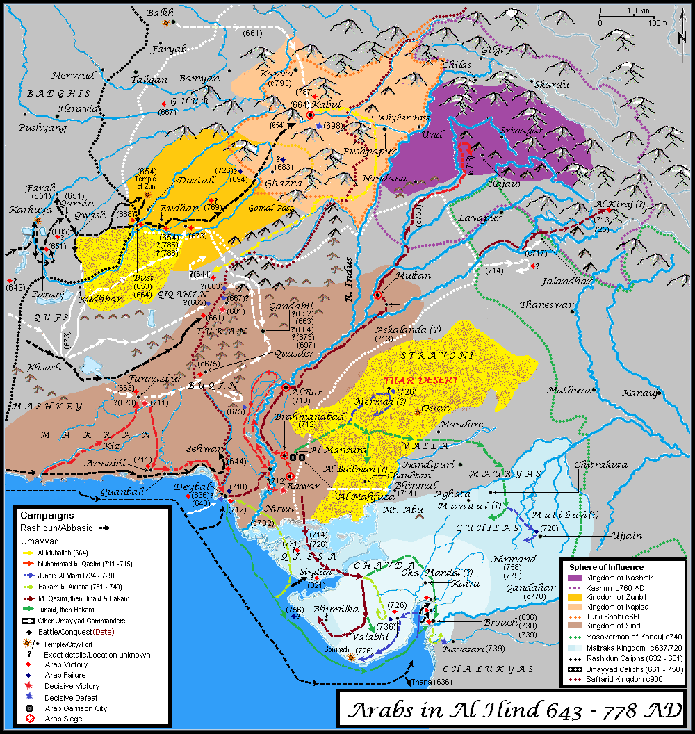 Graphical Description of Arab Campaigns in Al Hind. Created on Wikimedia Commons template of Pakistan and Afghanistan was used and public domain information from "The Chachnama" and "Kitab Futuh Al Buldun" was the source.